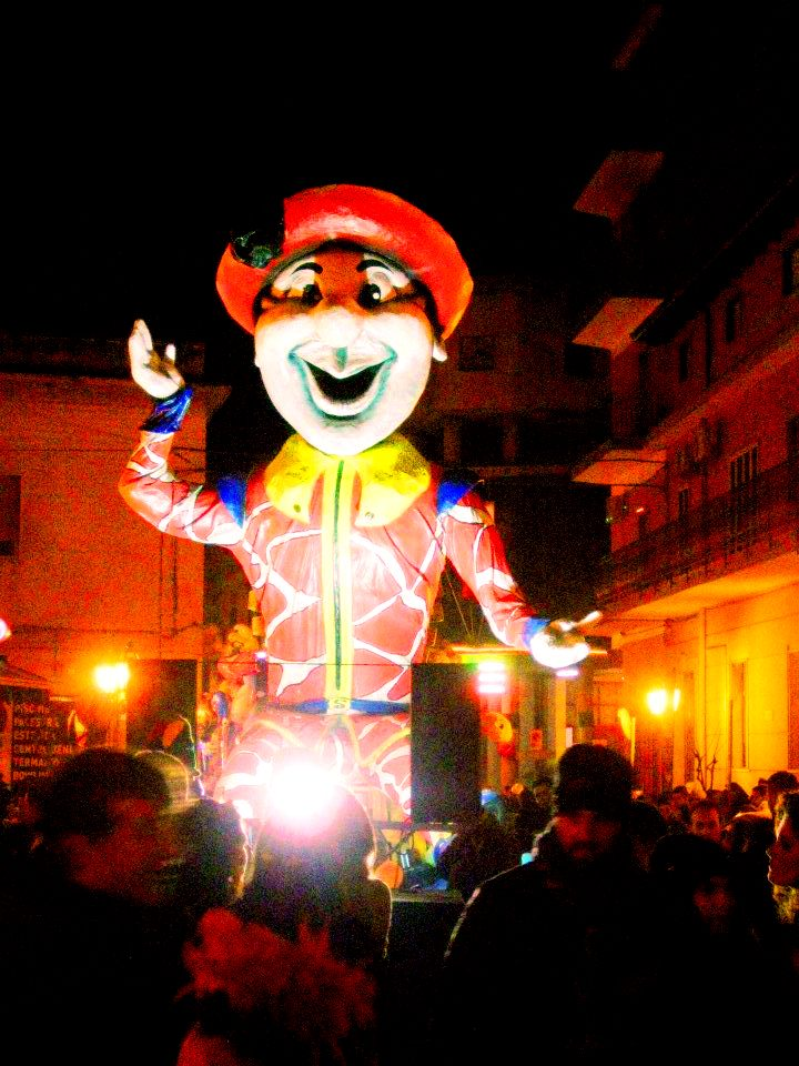 Maschera del Carnevale Strianese